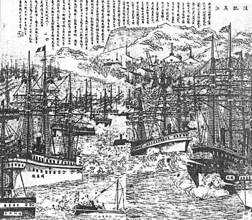 Chinese_image_of_the_battle_of_Fuzhou ("法犯馬江圖")